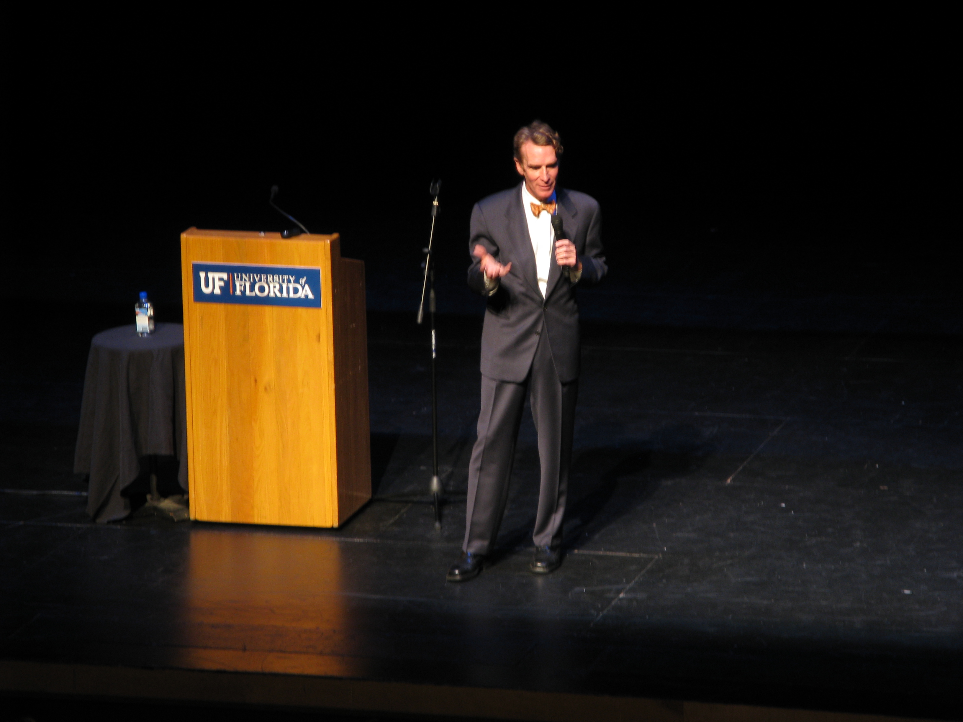 Bill Nye (the Science Guy) makes a speech at the University of Florida